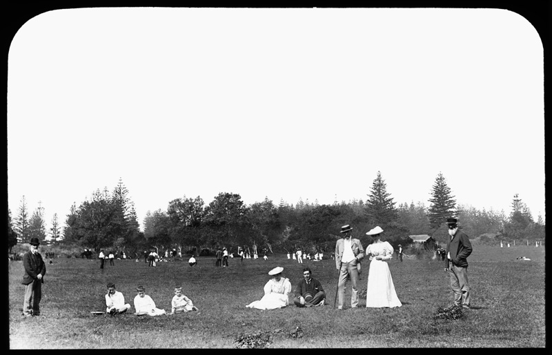 People congregating at a cricket match on Norfolk Island Dated: by 11/05/1908 Digital ID: 14086_a005_a005SZ847000025r Rights: We'd love to hear from you if you use our photos. Many other photos in our collection are available to view and browse on our website using Photo Investigator.